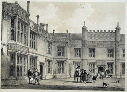 Depicted place: Sutton Place, Surrey